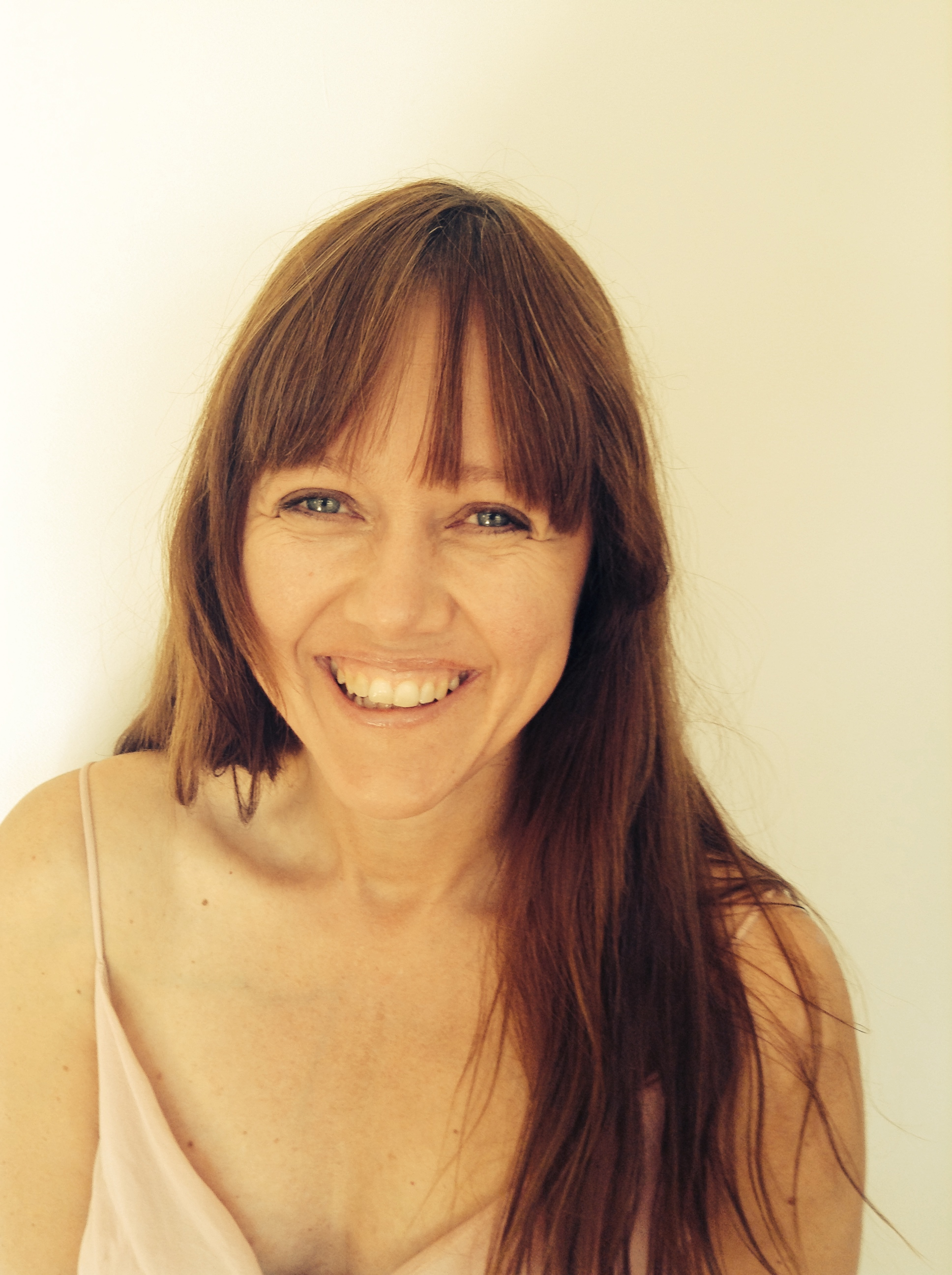 Iren Reppen (b 1965); norwegian actress, singer and theatre director